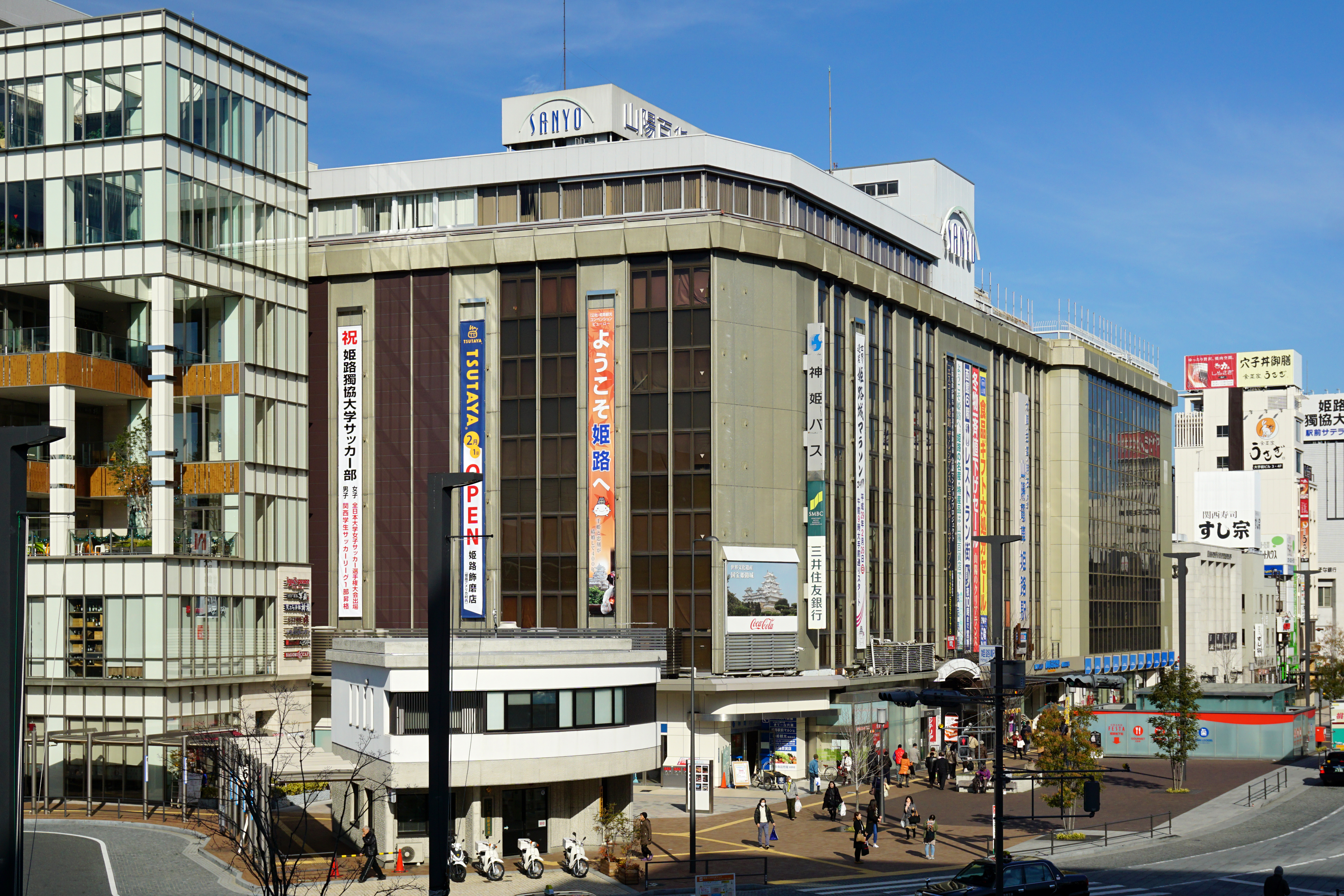 Sanyo Department Store view from Himeji Station in Himeji, Hyogo prefecture, Japan